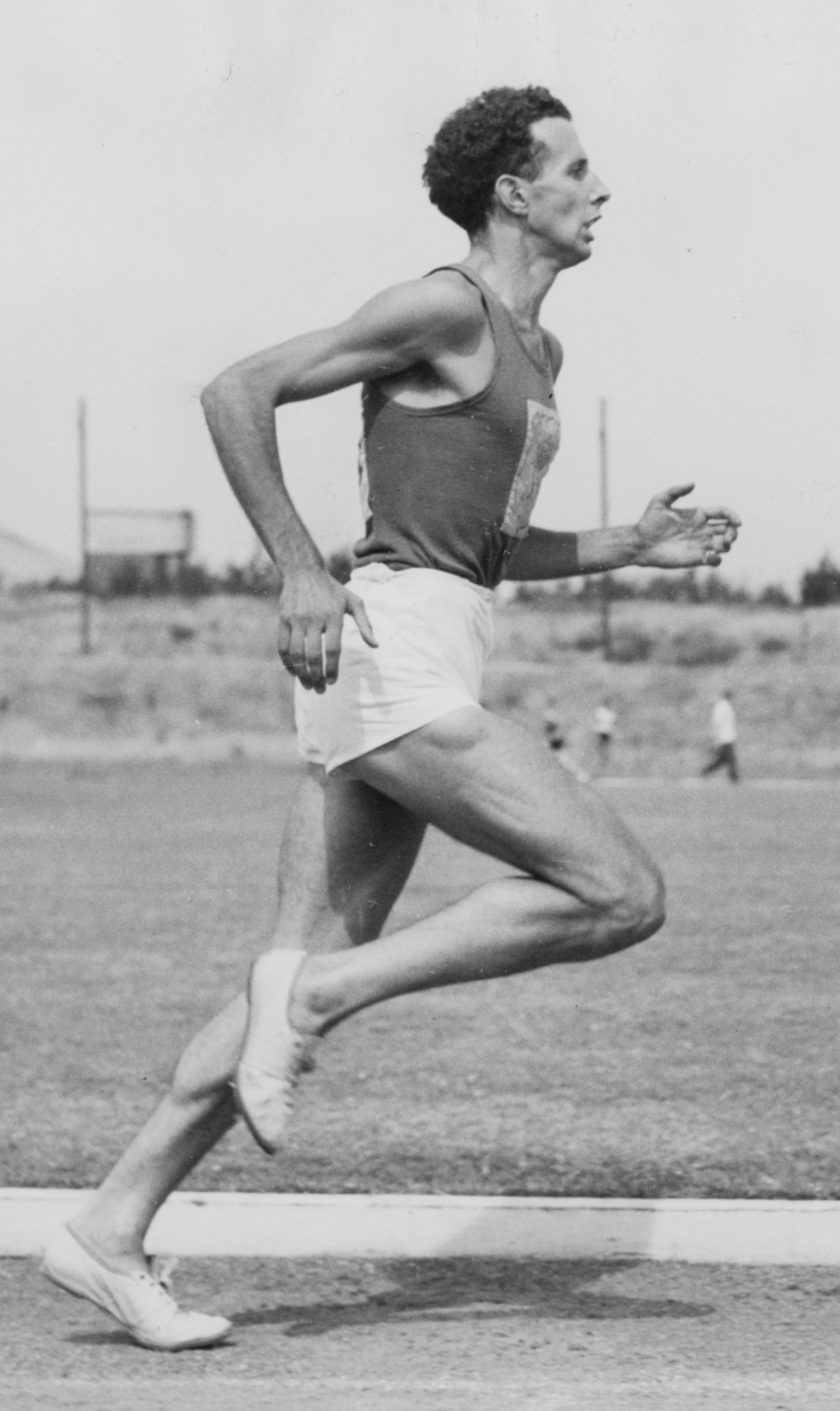 John Landy (Geelong Guild), whole-length, right profile, running, approaching the finishing post at the Olympic Park (Victoria)